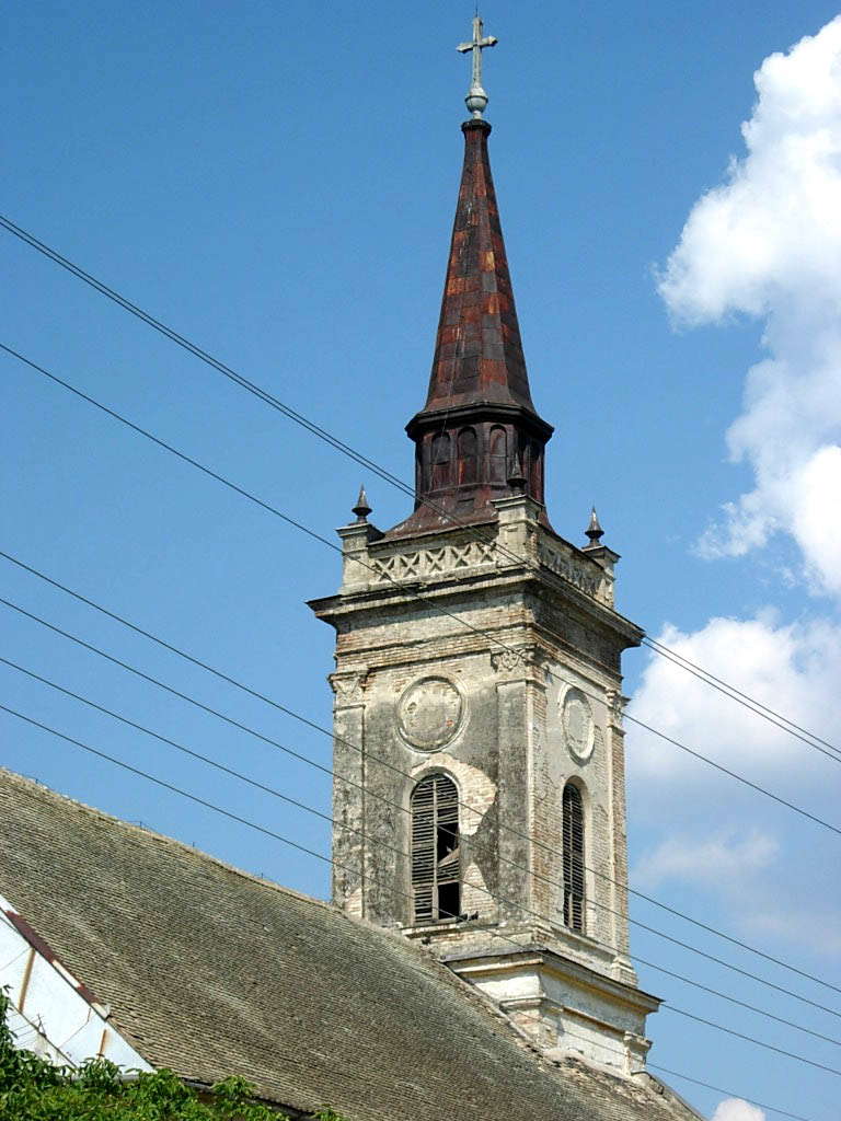 The steeple of the St. Ferdinand the Bishop Catholic Church in Obrovac, Vojvodina, Serbia.